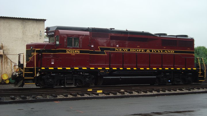 Showing her classic GP30 roof hump